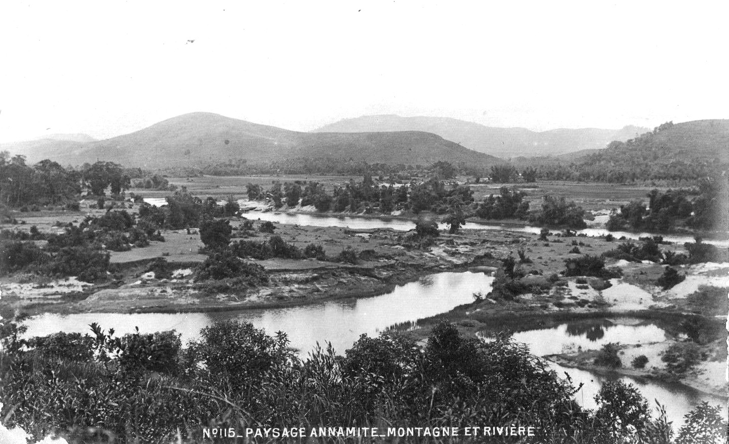 Scan of a circa 1900 postcard showing the landscape of the Red River in northern Vietnam.